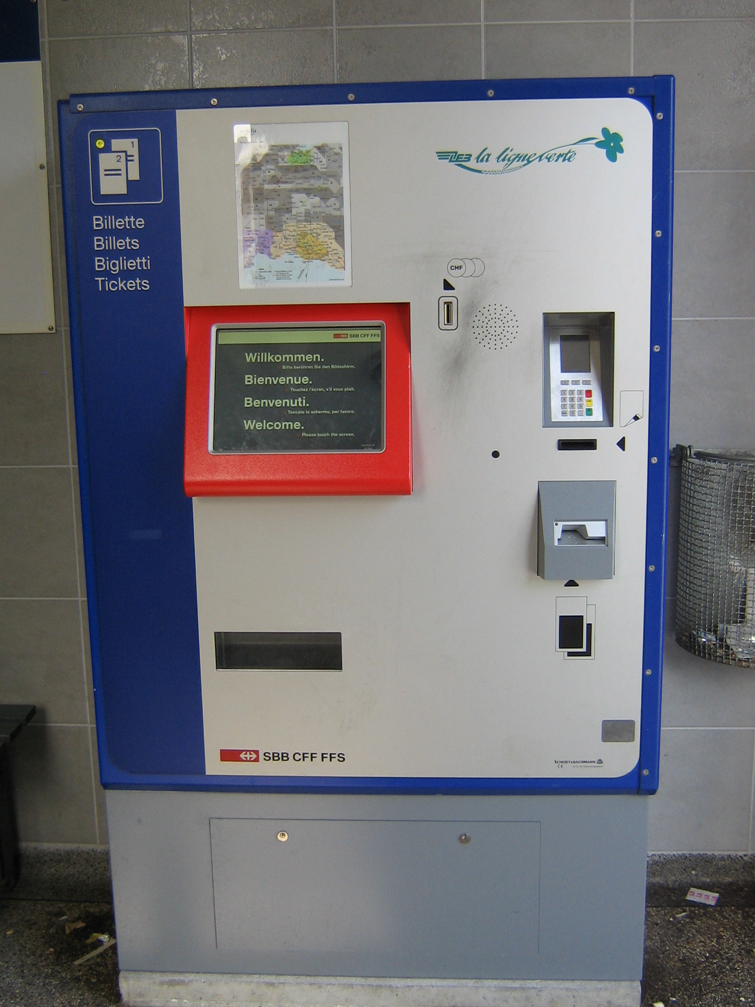 Ticket machine, type SBB CFF FFS, at the railway station of Étagnières.